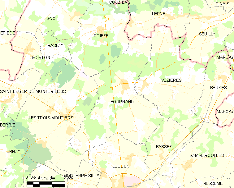 Map of French municipality Bournand